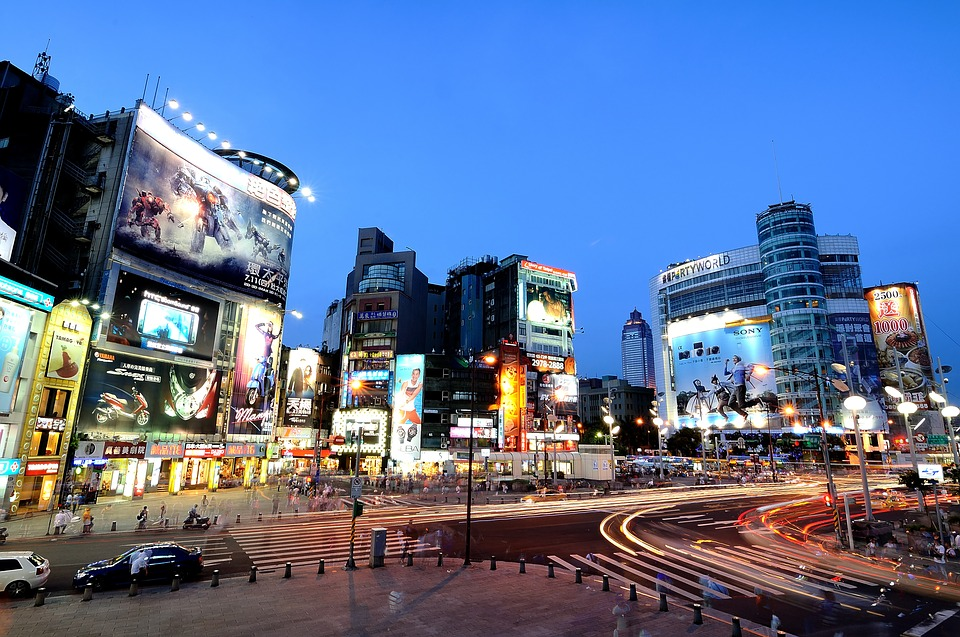 Night view between Central Pictures New World Building (left) and Cashbox Partyworld Taipei Zhonghua New Hall (right).